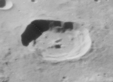 Oblique view of Democritus crater, facing northwest, on the moon.